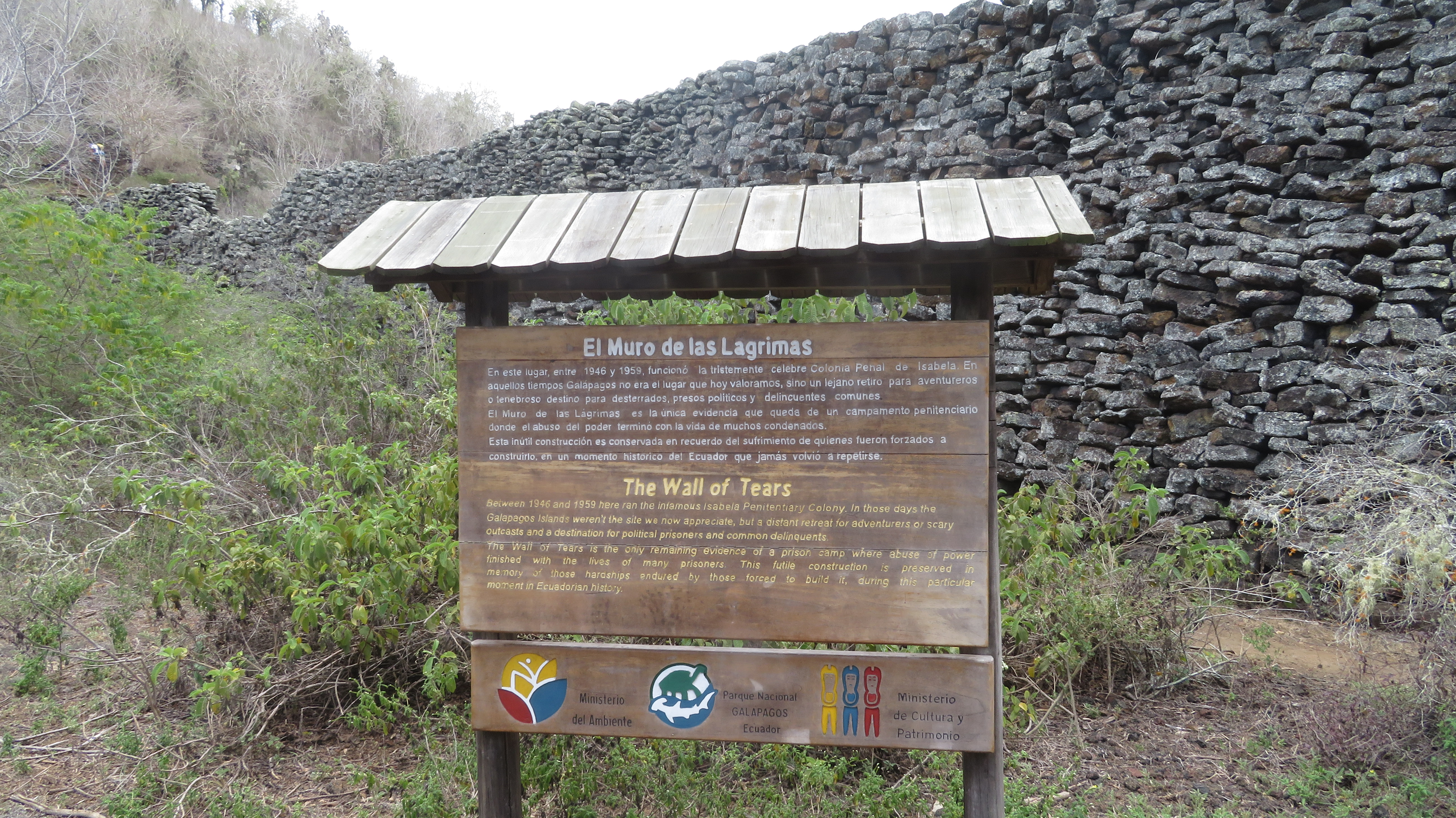 Information board, Wall of Tears (Muro de las Lágrimas), Isla Isabela, Islas Galápagos, Ecuador